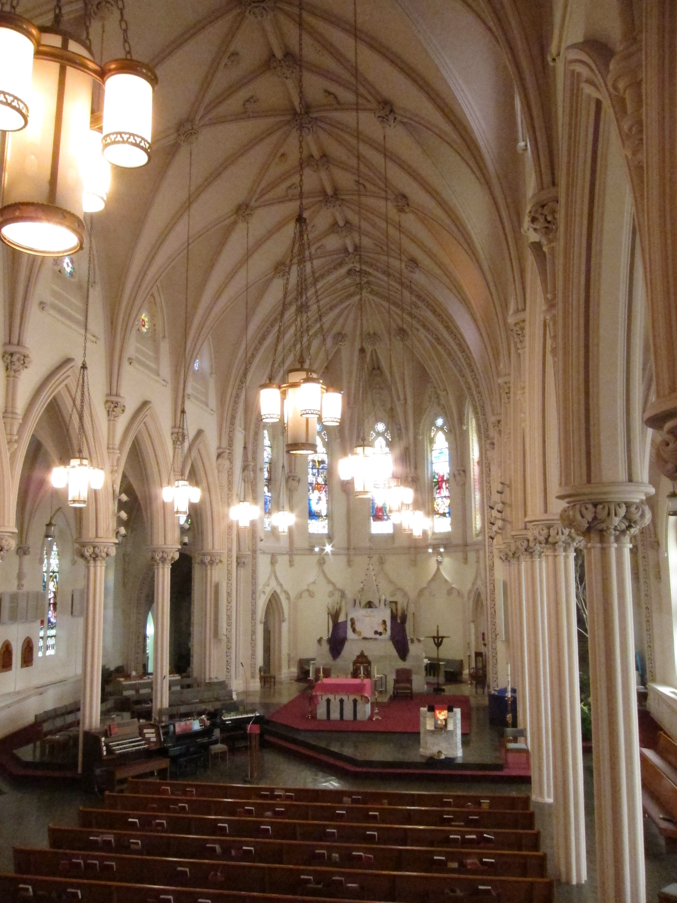 Basilica of Saint Mary of the Immaculate Conception (Norfolk, Virginia), interior, nave, view from organ loft 2